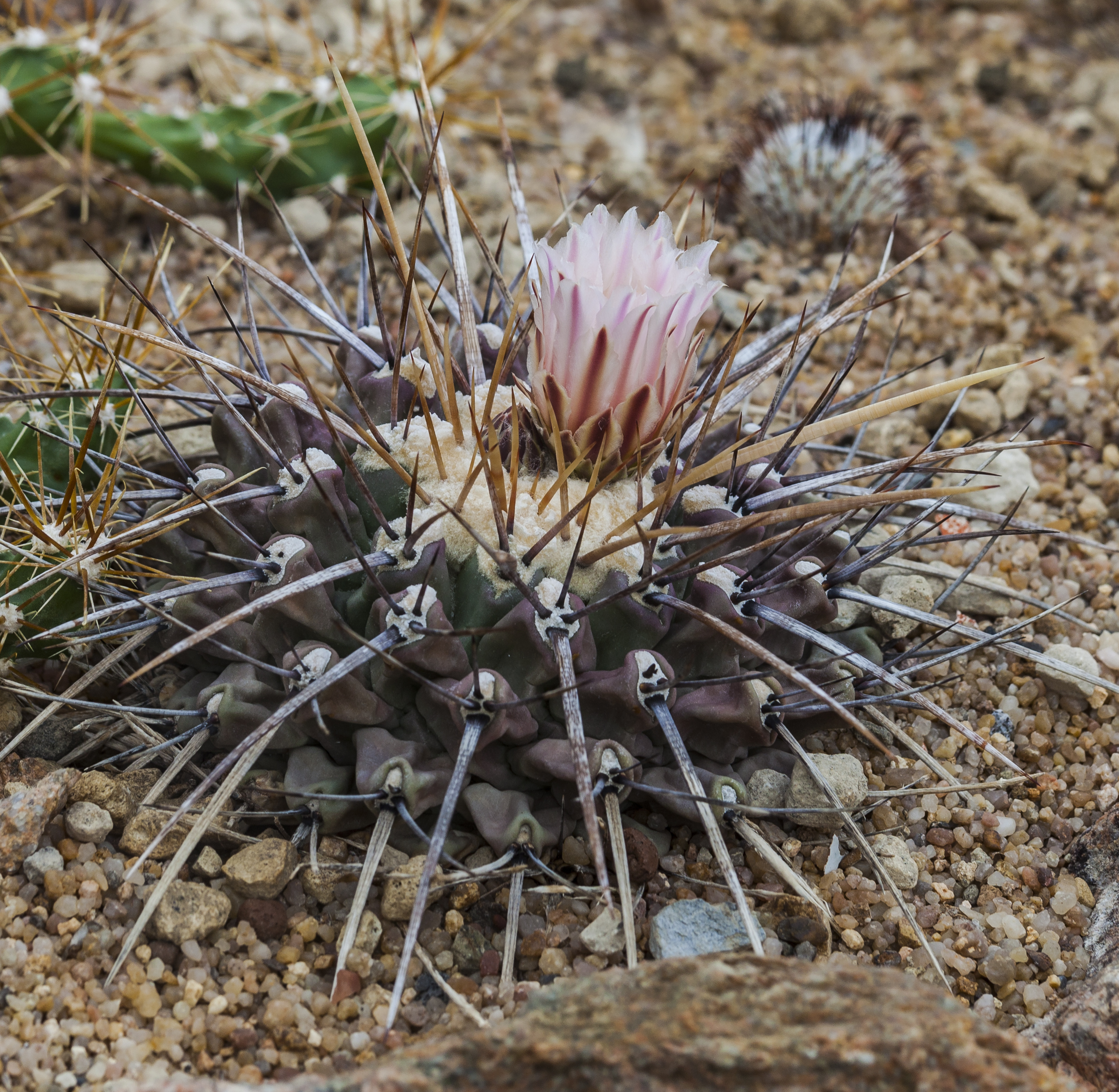 Thelocactus tulensis, Munich Botanical Garden, Germany